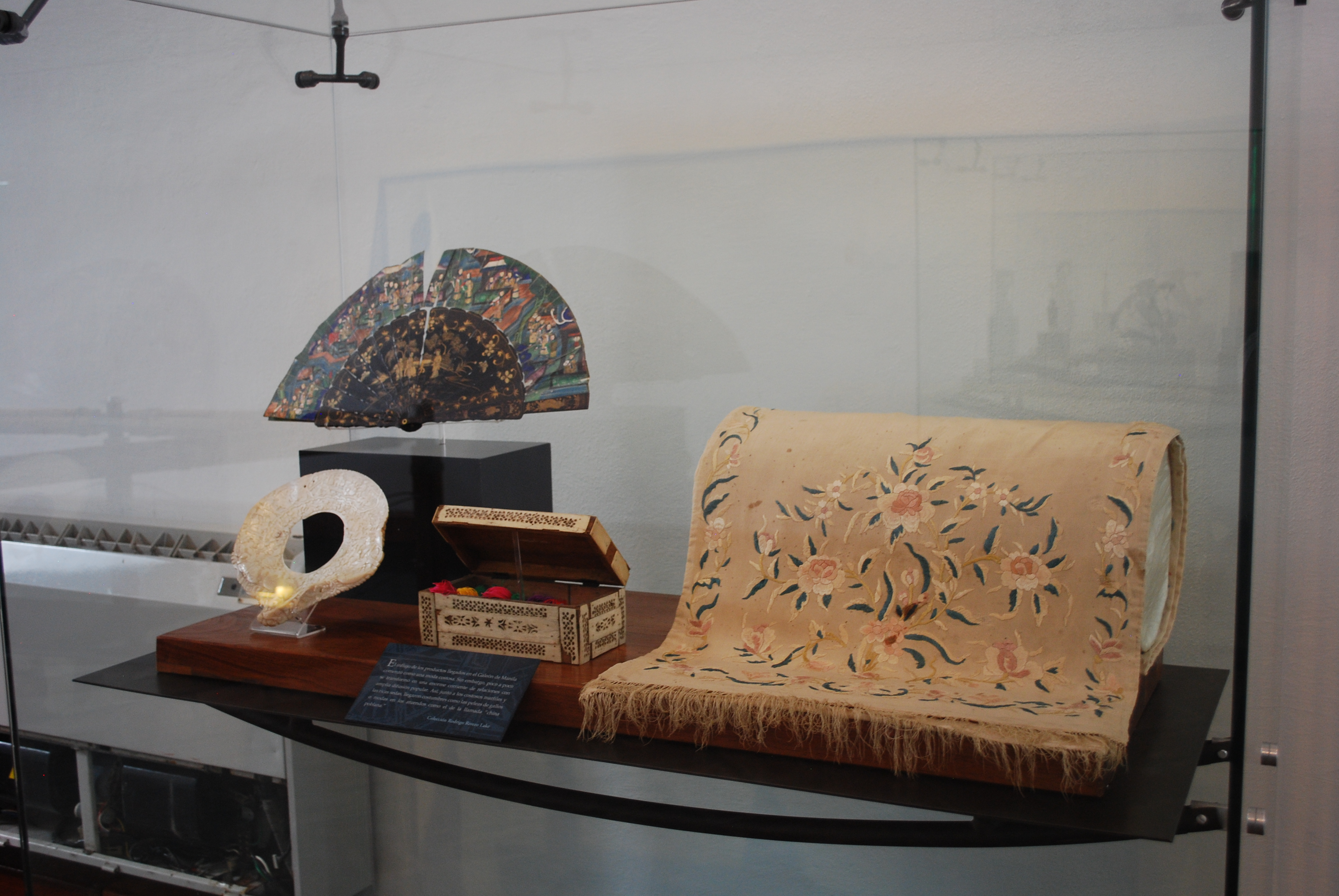 Samples of goods brought via the Manila Galleon on display at the San Diego Fort in Acapulco, Mexico